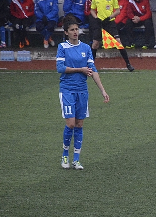 Yağmur Uraz for Konak Belediyespor in the 2013-14 season